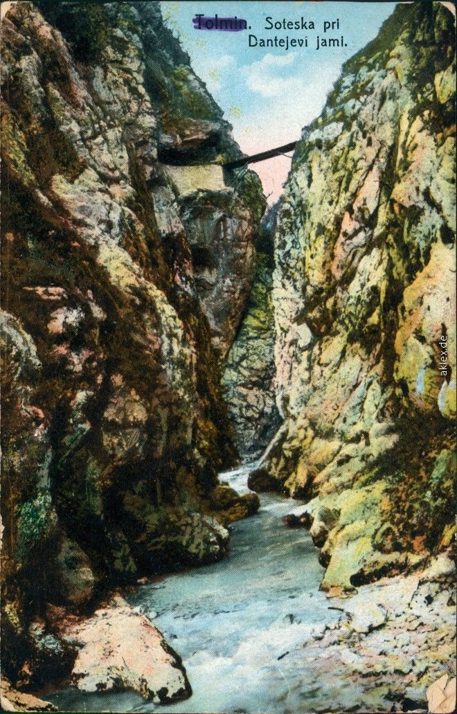 Postcard of Soteska pri Dantejevi jami.